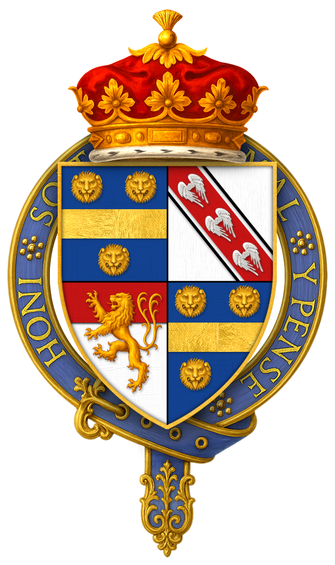 Coat of arms of Sir Edmund de la Pole, 3rd Duke of Suffolk, KG